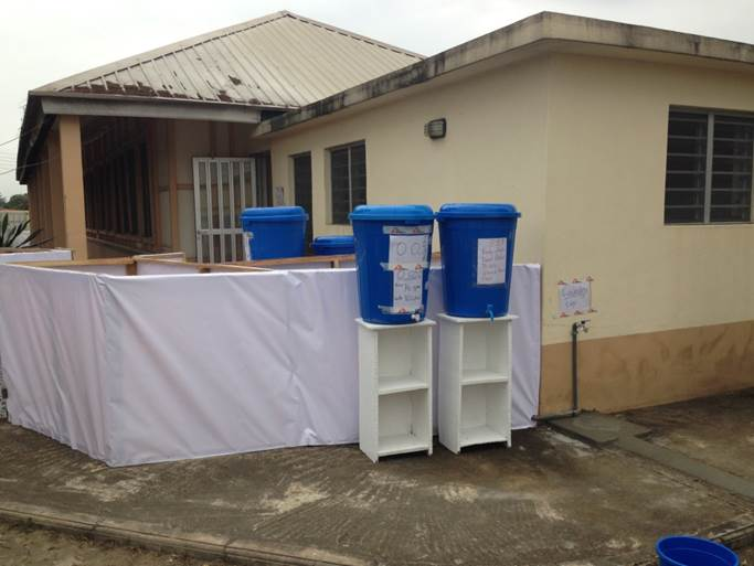 Handwashing stations outside of the new Ebola isolation ward in Lagos, Nigeria. For more information on Ebola and what CDC is doing, please visit